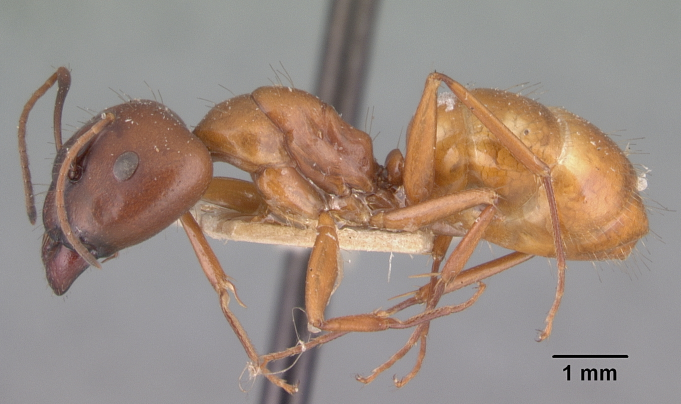 Profile view of ant Camponotus kelleri specimen casent0101524.